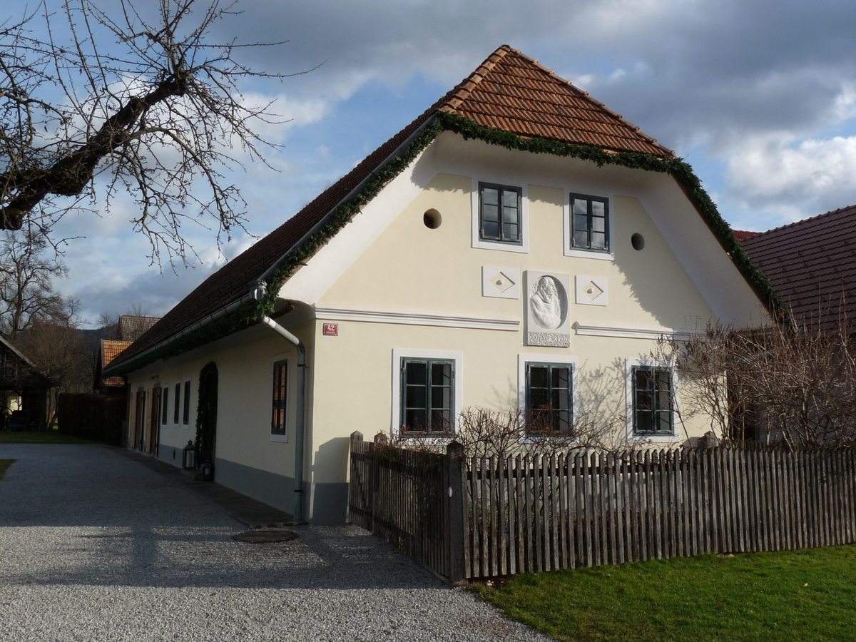 Škrabčeva domačija, birth house of Stanislav Škrabec